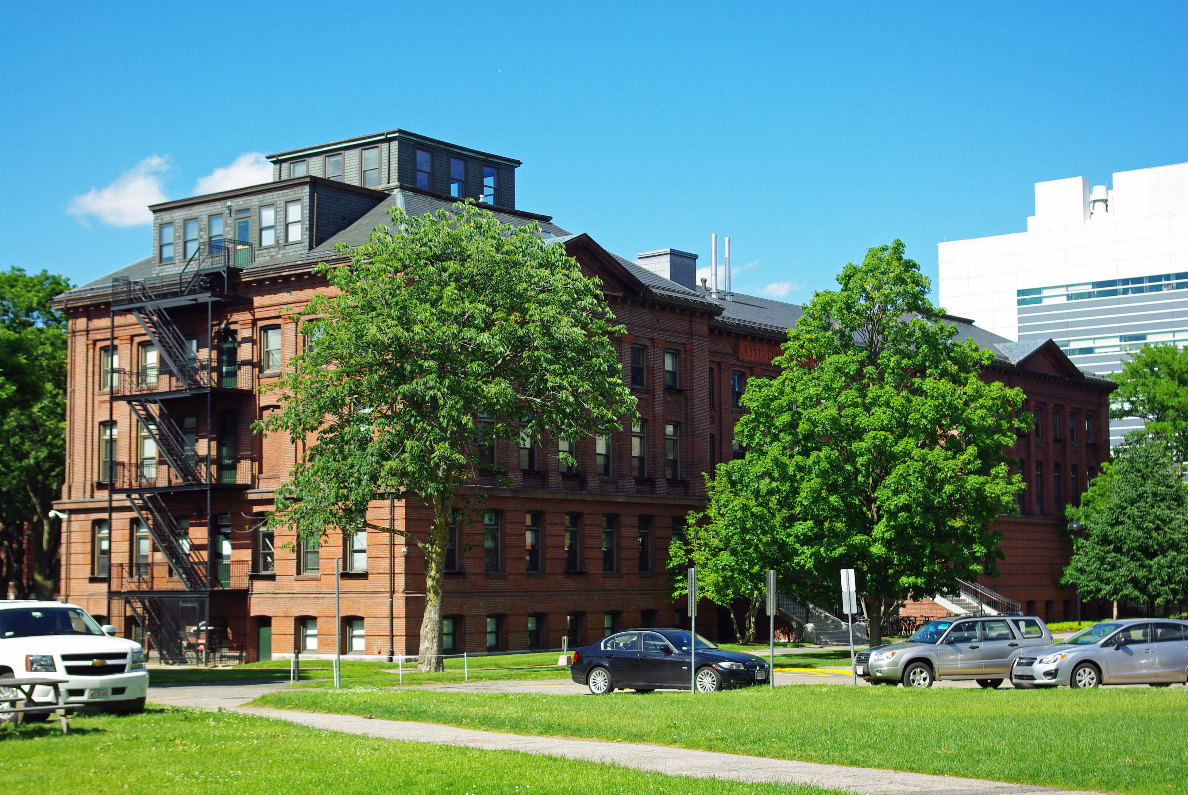 Jefferson Laboratory